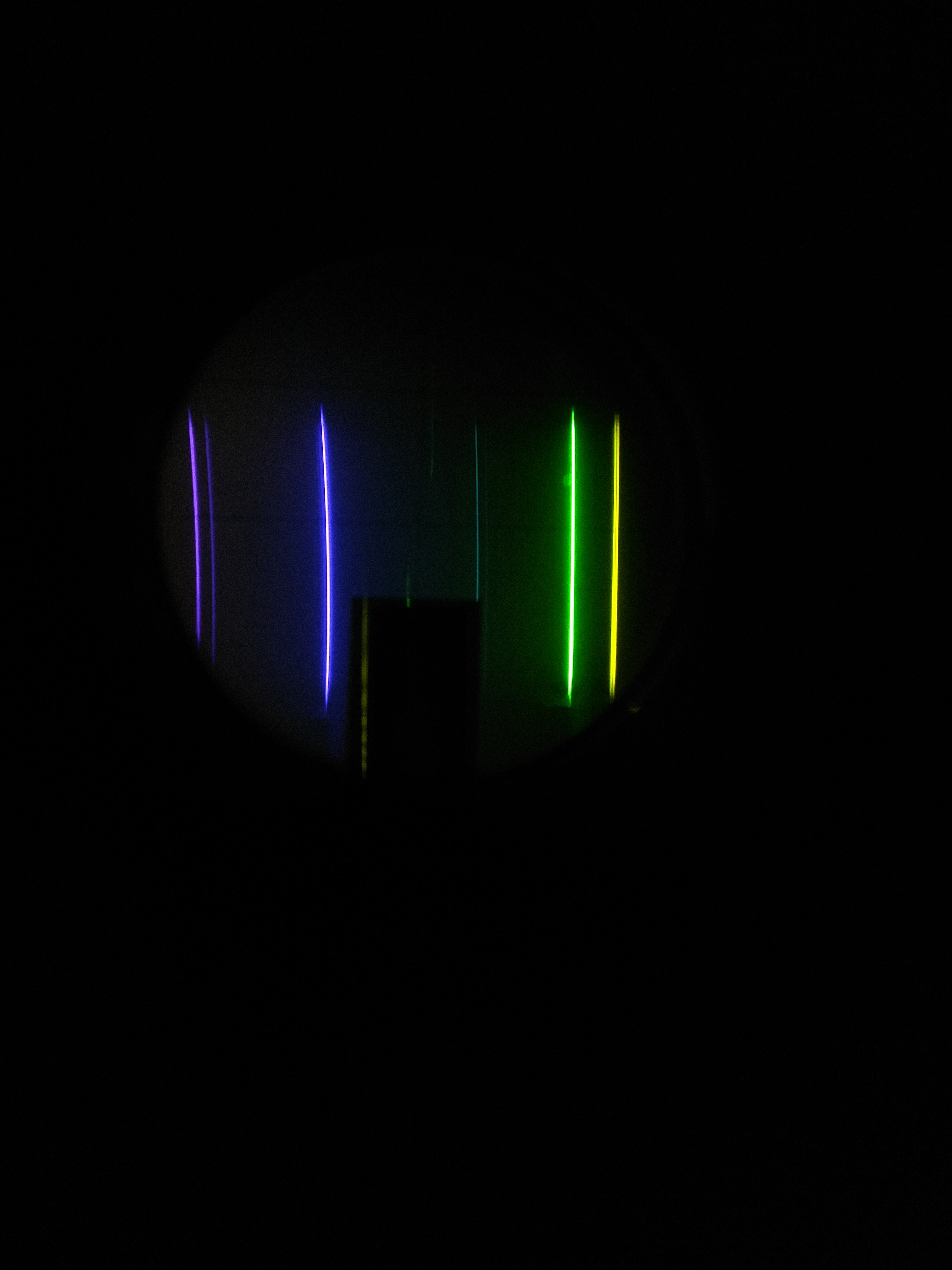 Mercury spectrum observed through a dispersive prism.